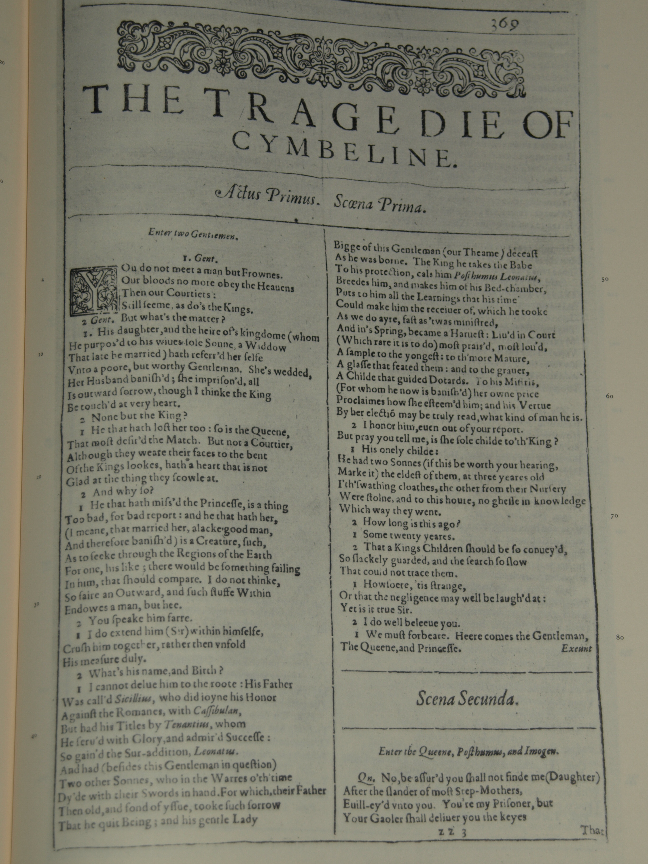 Photo of the first page of Cymbeline from a facsimile edition of the First Folio of Shakespeare's plays, published in 1623